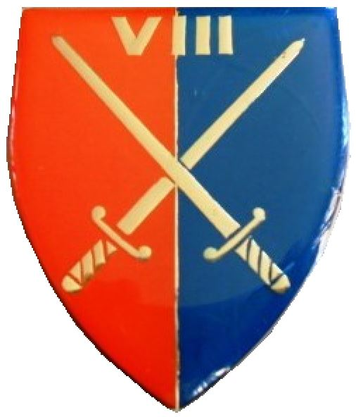 SADF 8 Armoured Division South Africa emblem